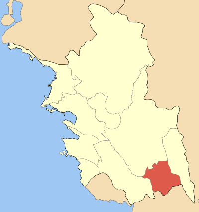 Locator map of Acherondas municipality (Δήμος Αχέροντα) in Thesprotia prefecture (Νομός Θεσπρωτίας) in Greece.